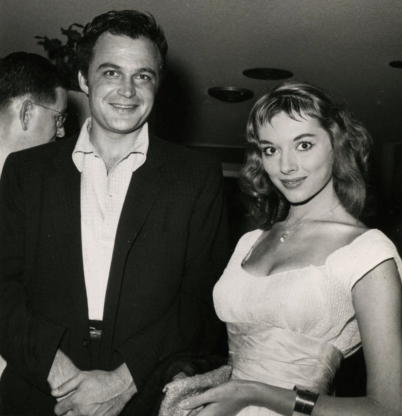 actors Lance Fuller & Vikki Dougan - publicity still (cropped)